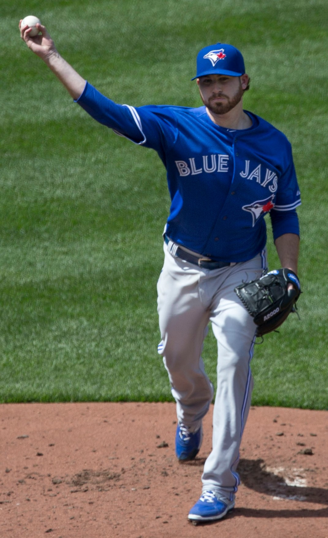 Blue Jays at Orioles 04/12/15